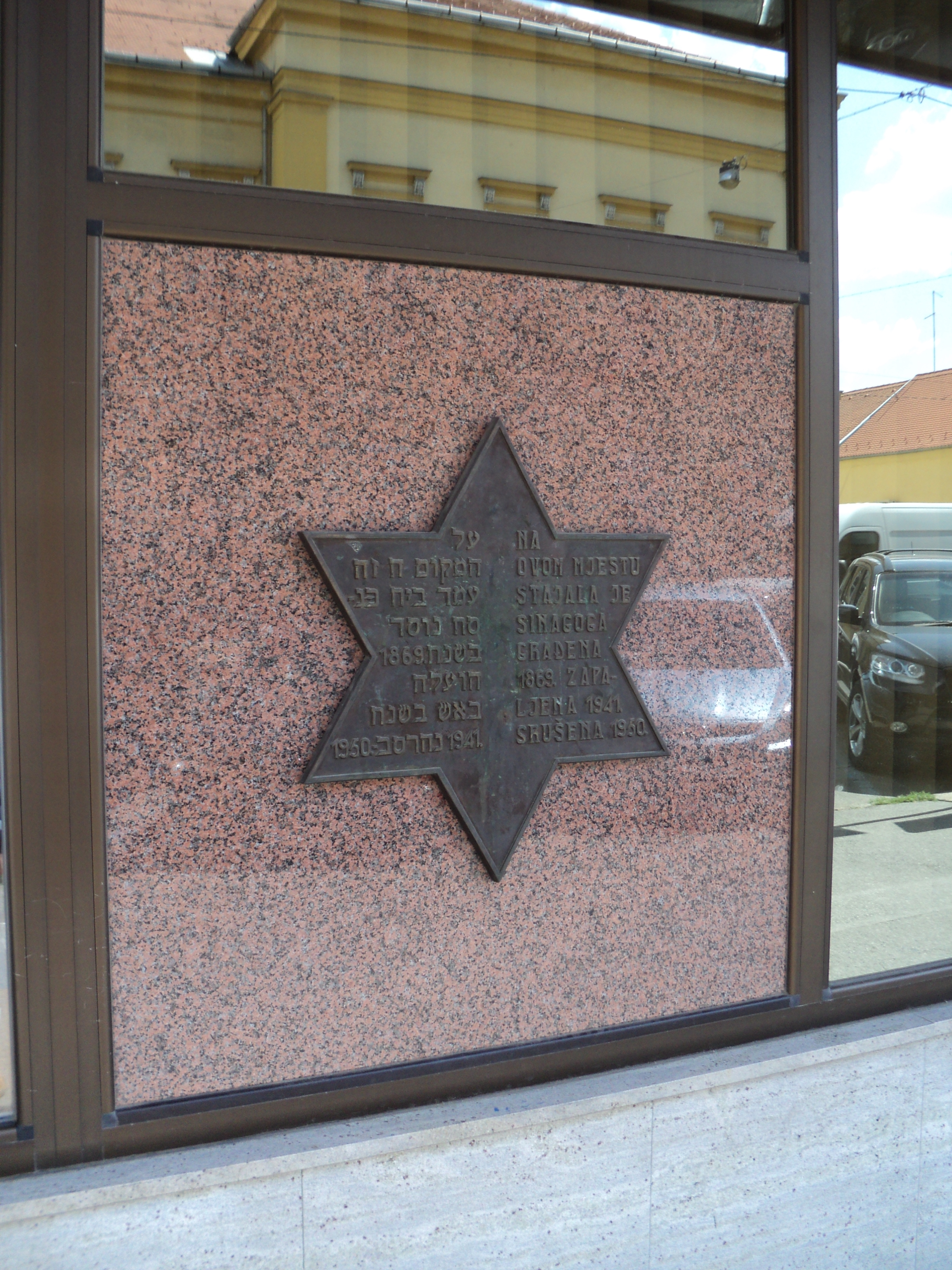 Memorial plaque at the place where once stood the Ashkenazi synagogue in Gornji grad municipality, Osijek. It was burned and destroyed by fascist Ustasha regime in 1941.